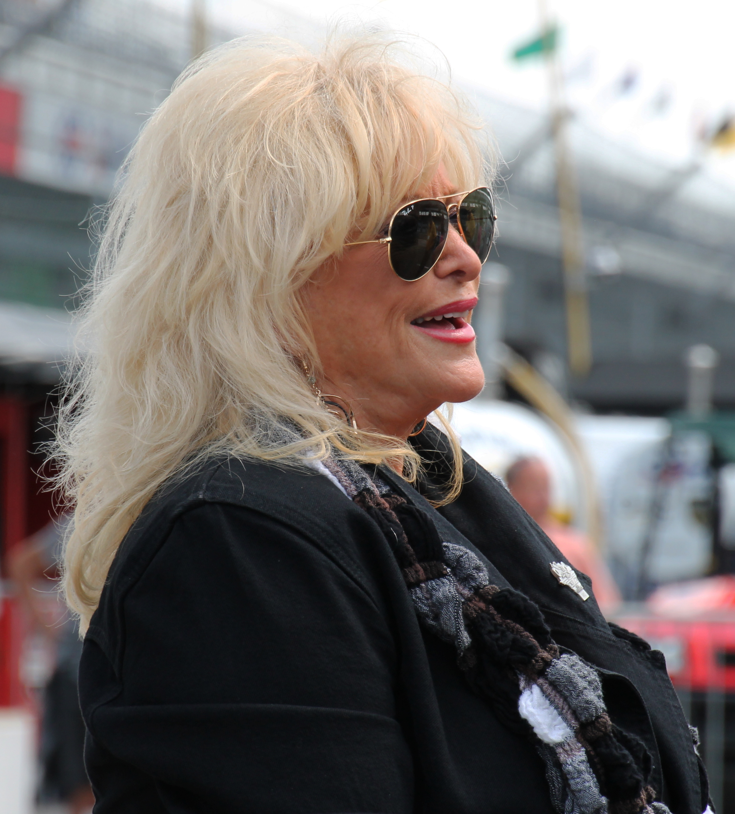 Linda Vaughn at Carb Day 2015 at the Indianapolis Motor Speedway